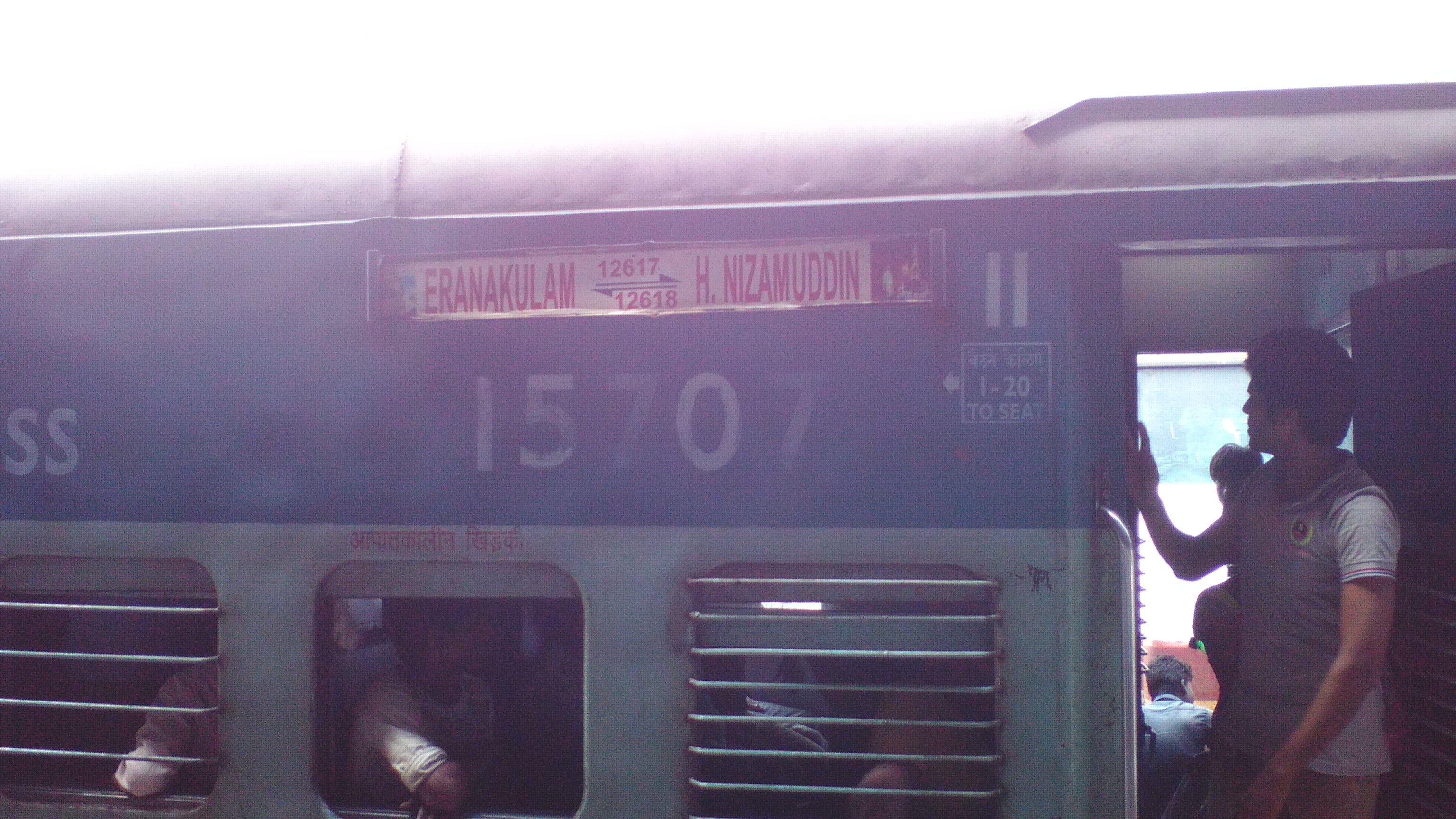 Coachboard of Mangla Lakshadweep Express